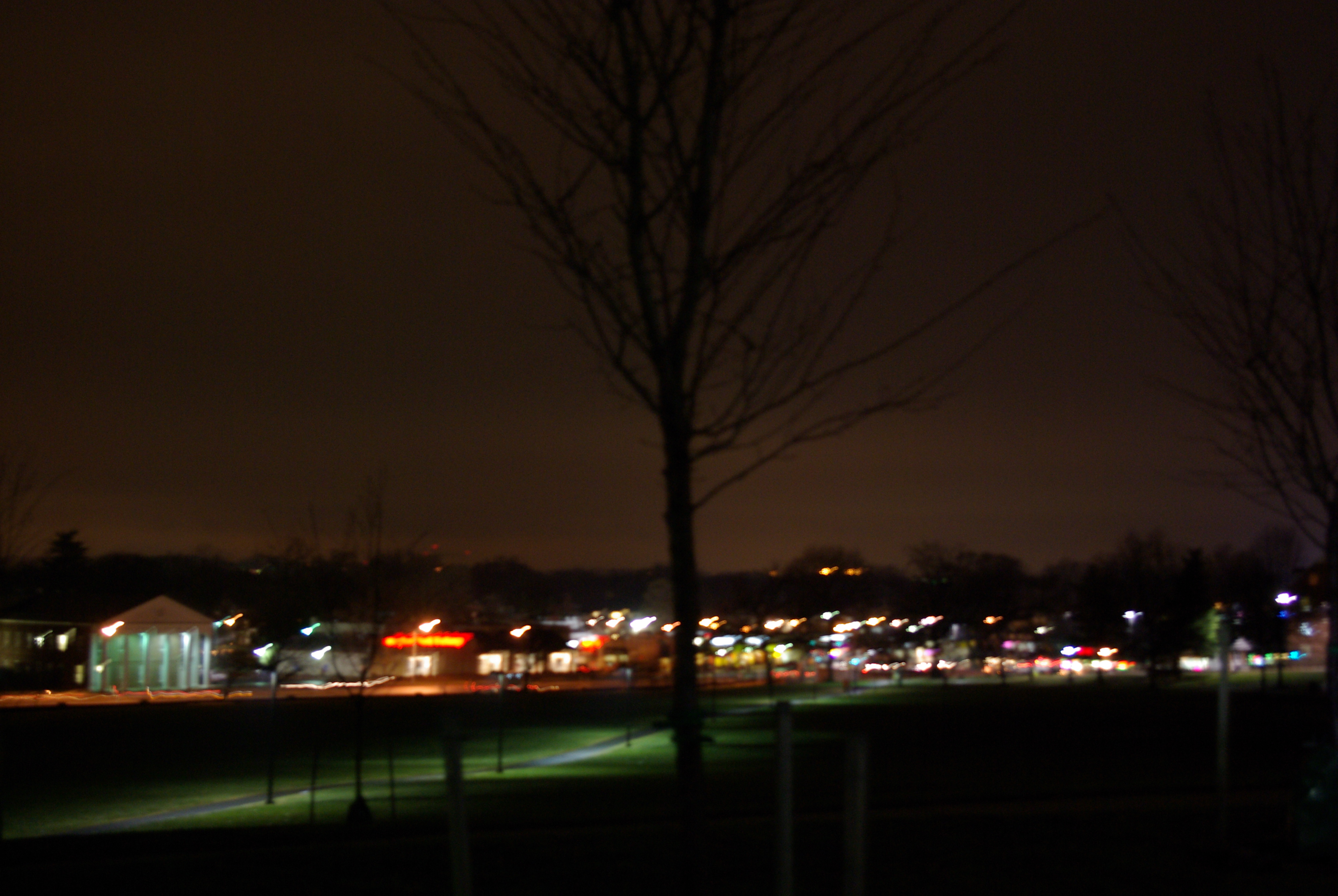 College Park at night, seen from Memorial Chapel Fields on UMD campus